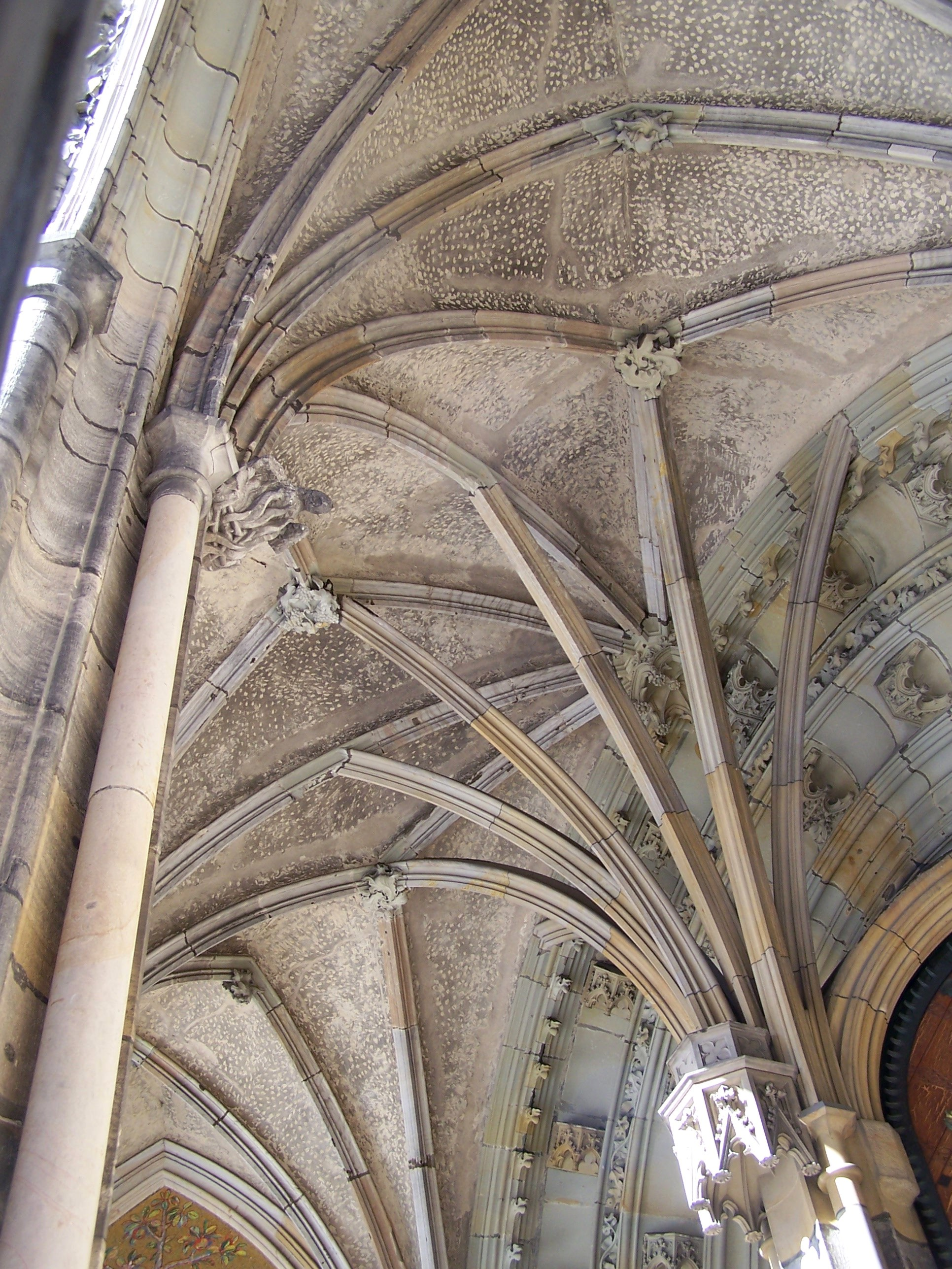 Vault of Golden Gate in St. Vitus' Cathedral in Prague.